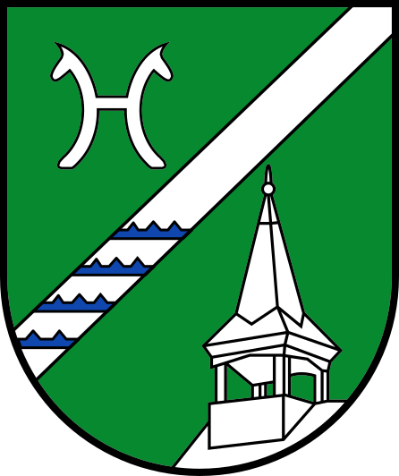 Coat of Arms of Brietlingen